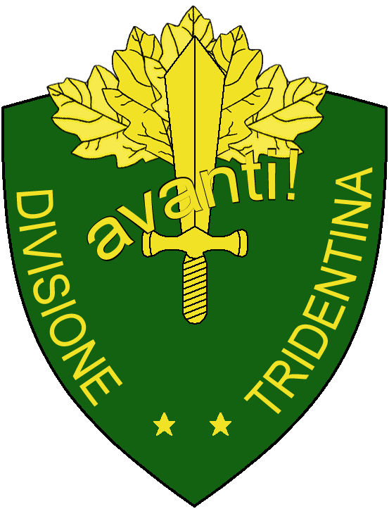 Coat of Arms of the Italian Army Division Tridentina as conferred by the Army General Staff in 2016